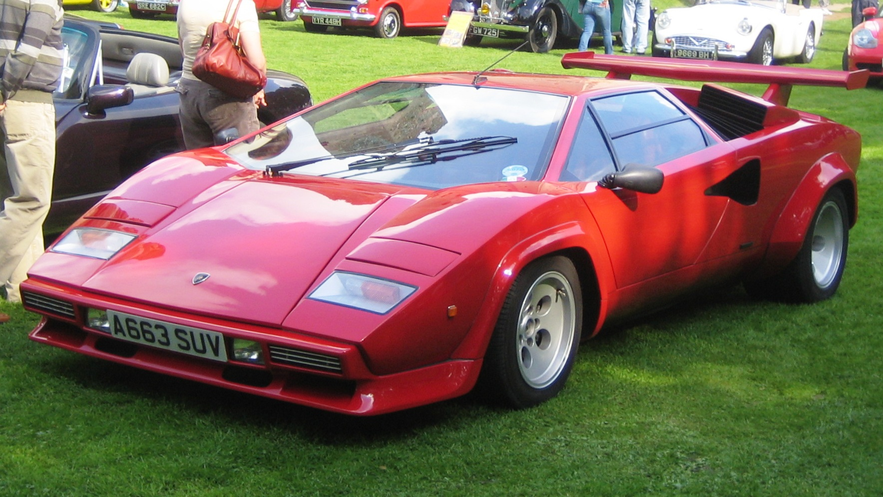 Lamborghini Countach at Castle Hedingham in north Essex